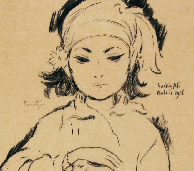 Rachiş Ali, a Tatar girl in Balcic. Ink drawing.